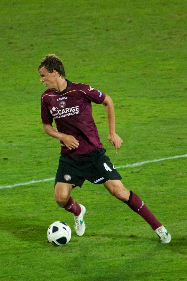 Alessandro Bernardini Livorno's player 2012/2013